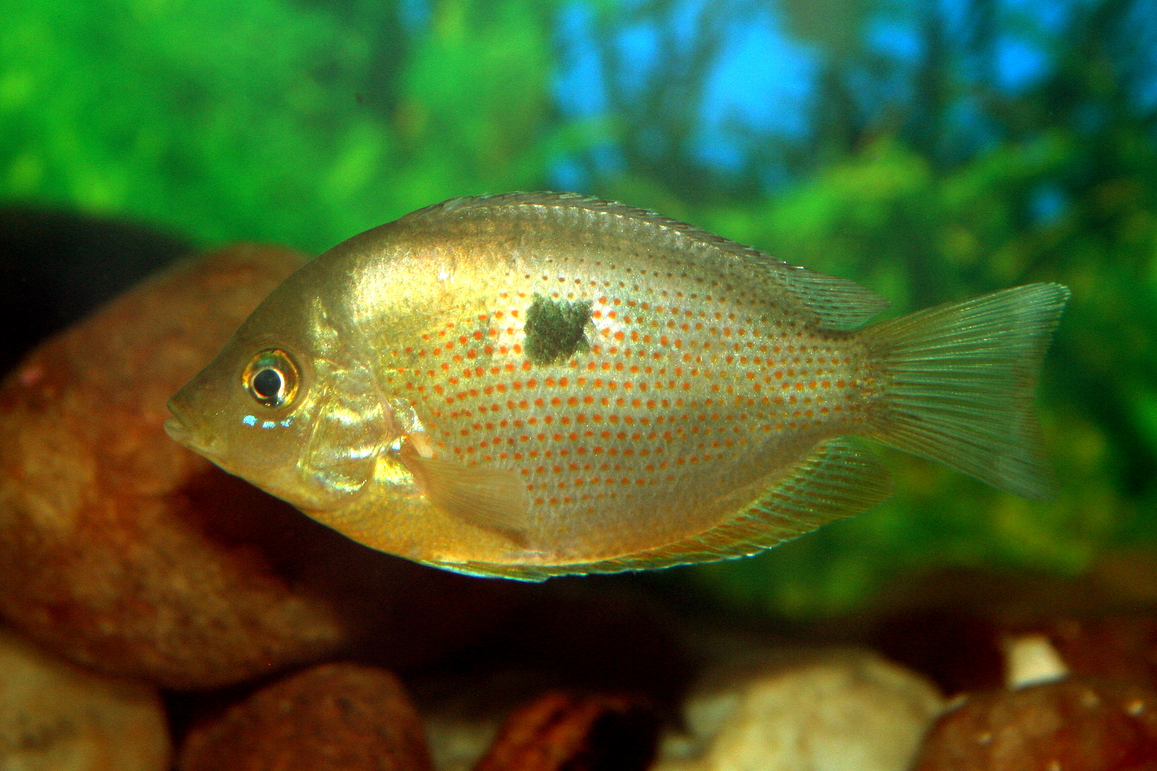 Etroplus Maculatus collected from Bharathapuzha River in Palakkad District of Kerala